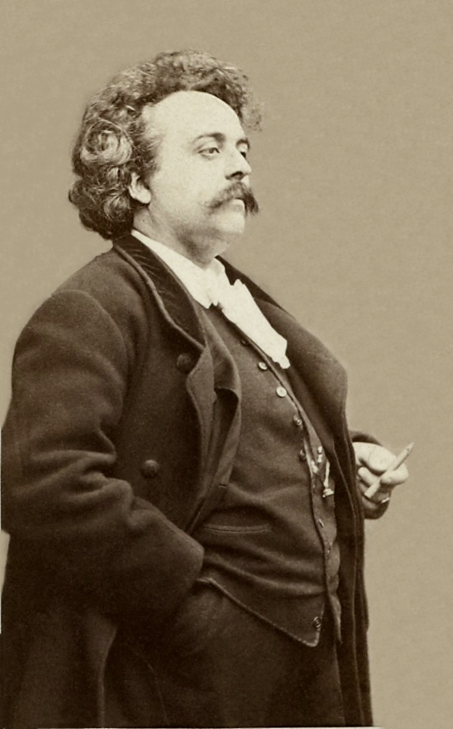 Albert-Ernest Carrier-Belleuse (1824-1887), french sculptor and painter, pupil of David d'Angers and master of Auguste Rodin.